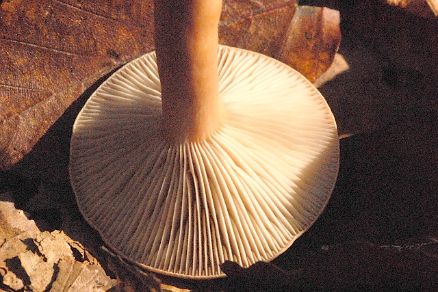 Lactarius subdulcis from Commanster, Belgium. The determination of the species shown in this picture has been verified.